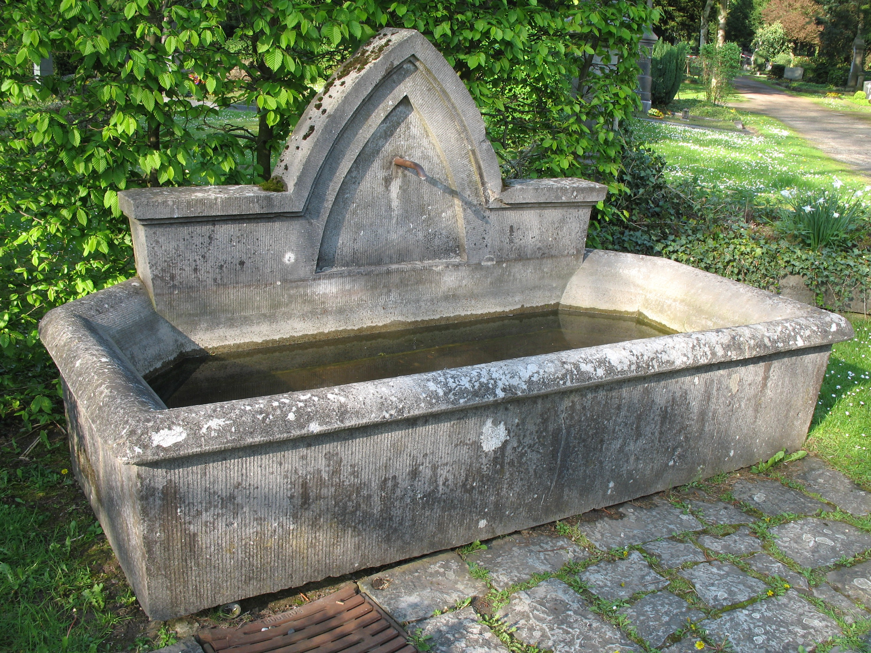 Water sink on Ostfriedhof of Aachen, Germany